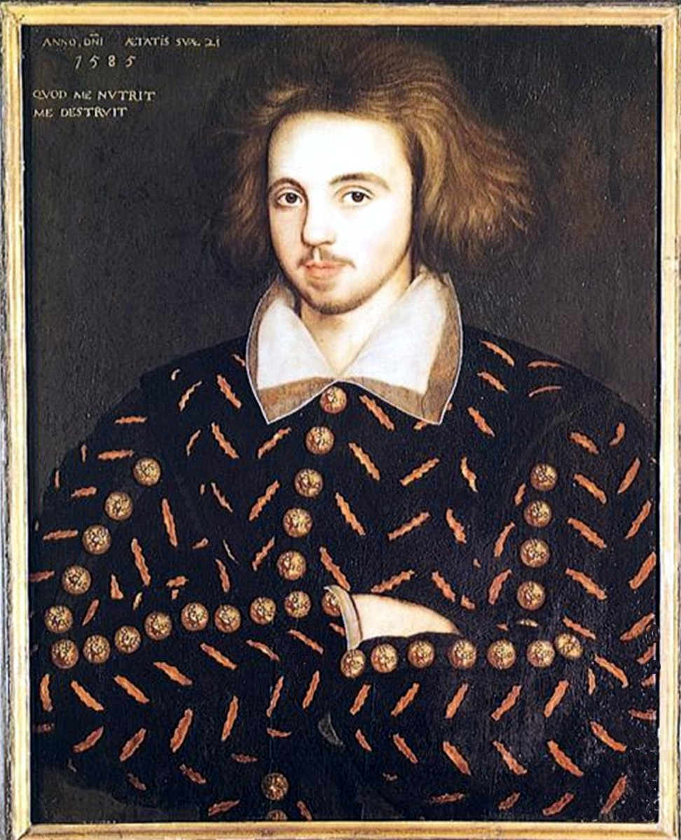 A portrait, supposedly of Christopher Marlowe. There is in fact no evidence that the anonymous sitter is Marlowe, but the clues do point in that direction. Marlowe was 21 years old in 1585, when the painting was made. He was also the only 21-year old student at Corpus Christi, where the painting was later found.[1]